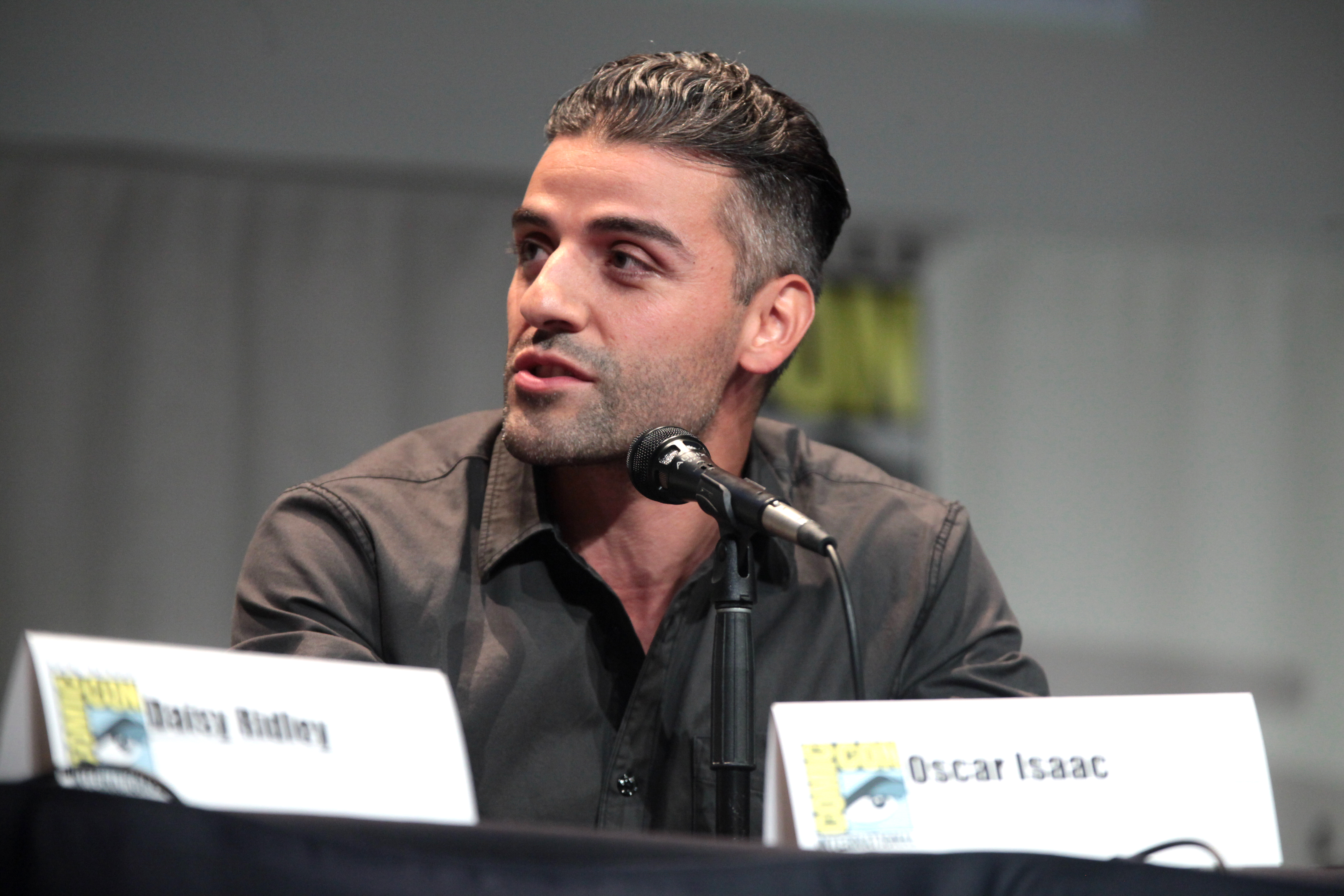 Oscar Isaac speaking at the 2015 San Diego Comic Con International, for "Star Wars: The Force Awakens", at the San Diego Convention Center in San Diego, California.